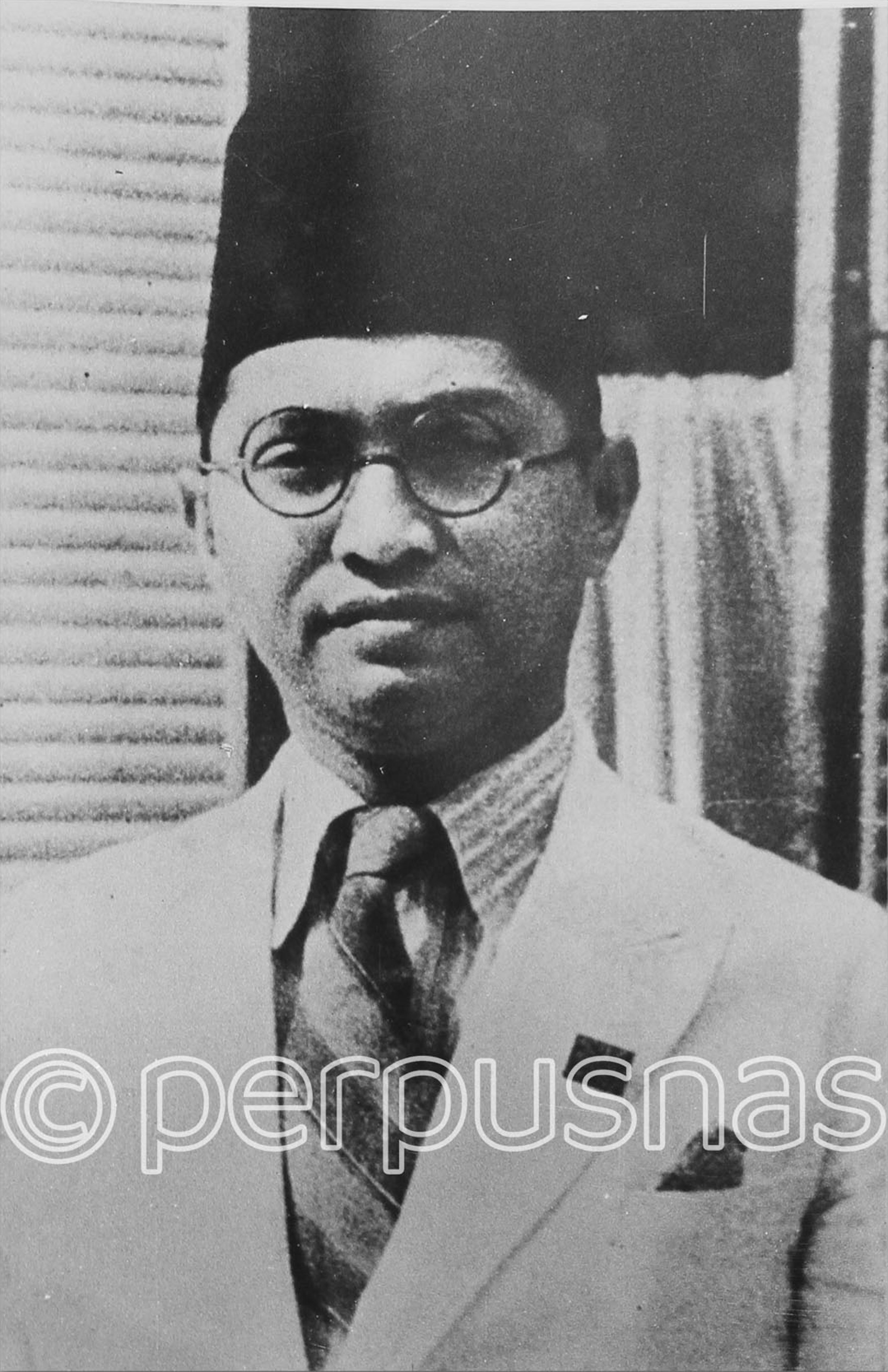 Teuku Mohammad Hasan, Indonesia minister.